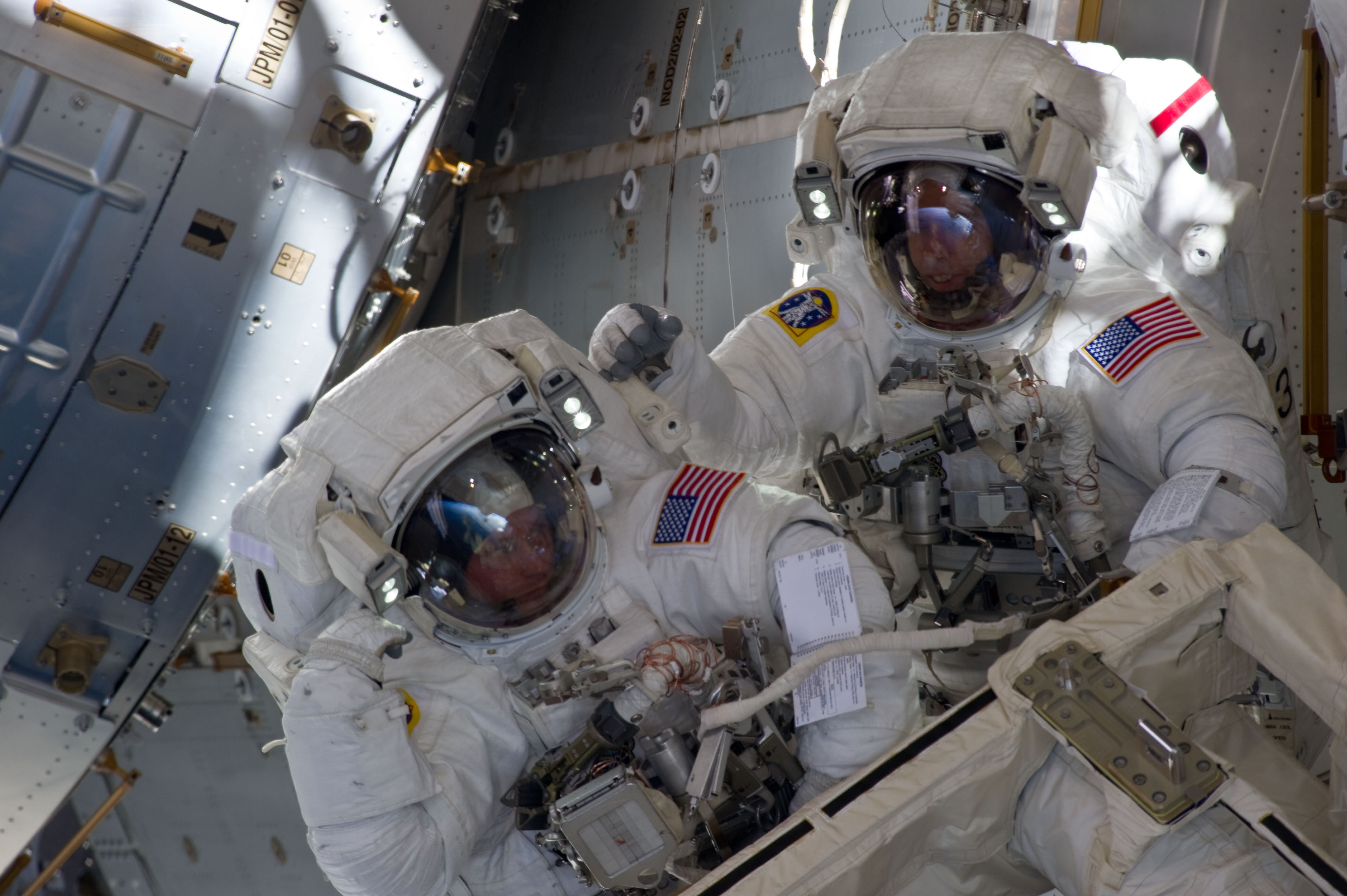 With components of the International Space Station in the view, NASA astronauts Andrew Feustel (right) and Michael Fincke are pictured during the STS-134 mission's third spacewalk. The two mission specialists coordinated their shared activity with NASA astronaut Greg Chamitoff (out of frame), who stayed in communication with the pair and with Mission Control Center in Houston from the shirt sleeve environment inside the ISS.